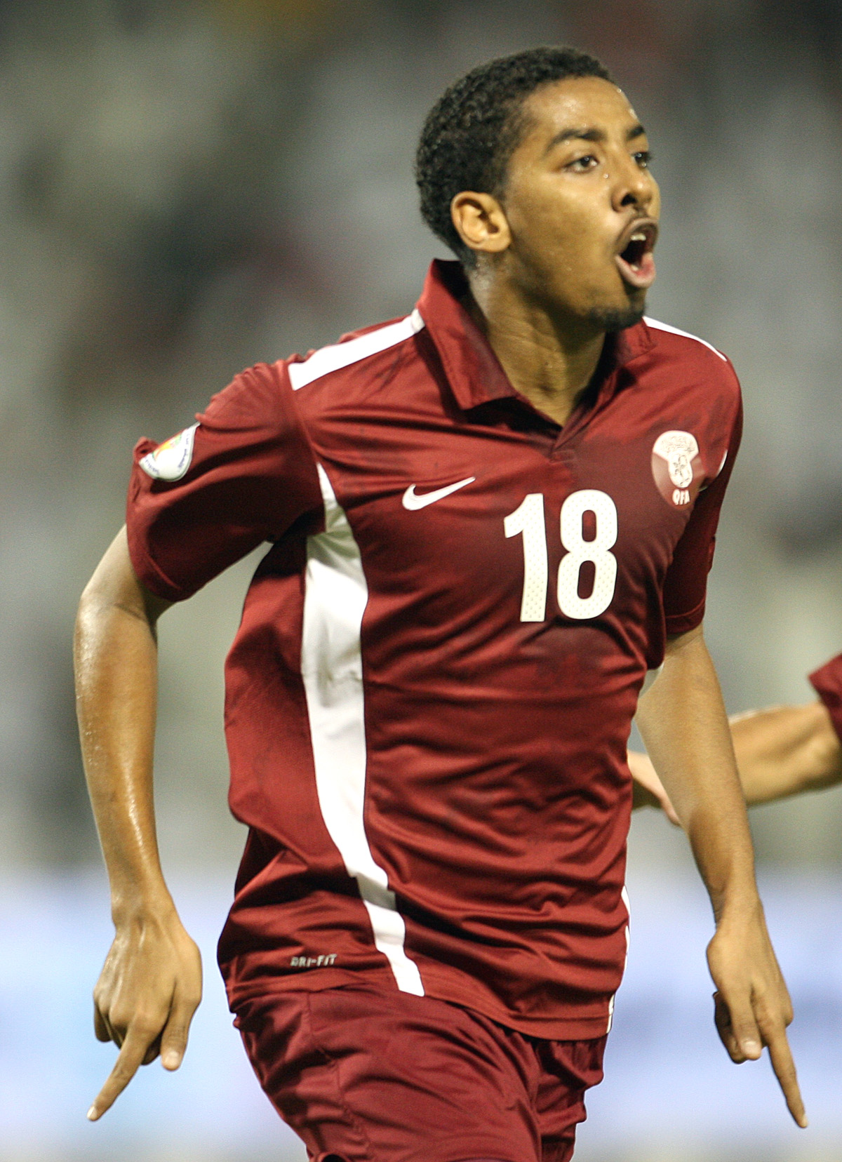 Qatar international Mohammed Al Sayed celebrates after scoring against Iran in the 2014 FIFA World Cup qualification match at the Al Sadd Stadium.